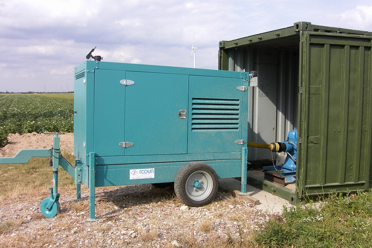 strawberry field getting water and fertilizer